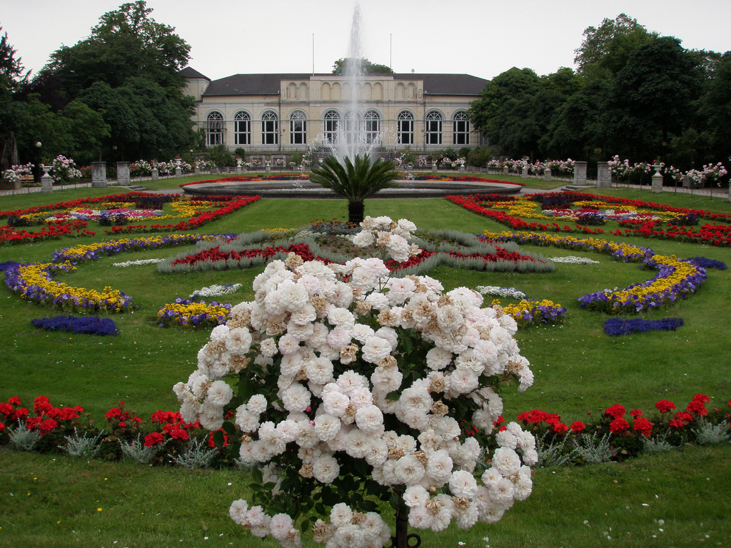 The Flora und Botanischer Garten Köln is a municipal formal park and botanical garden located adjacent to Cologne Zoological Garden at Amsterdamer Straße 34, Cologne, North Rhine-Westphalia, Germany. It is open daily without charge